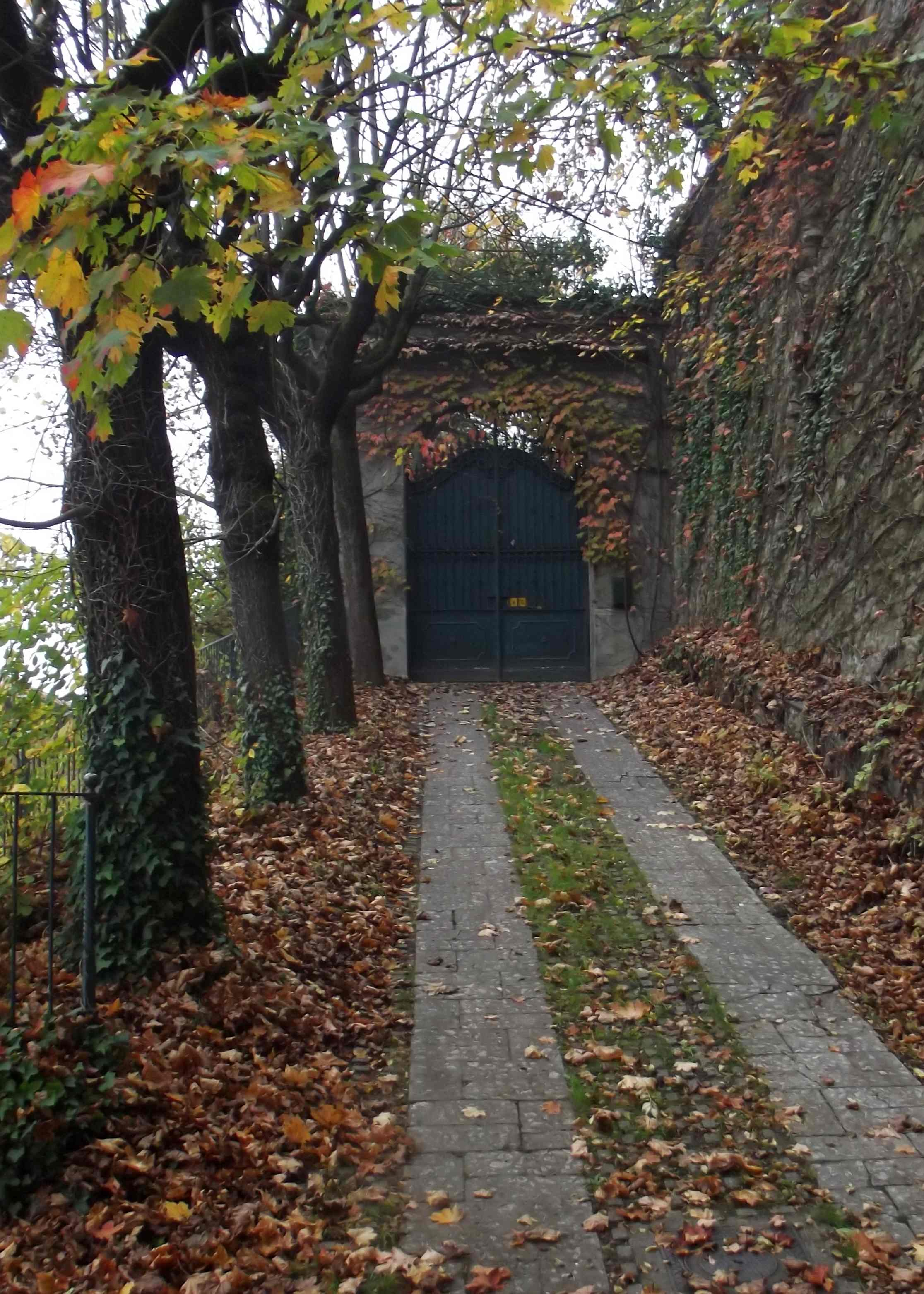 Bussolino (Gassino, TO, Italy): gate to the former castle